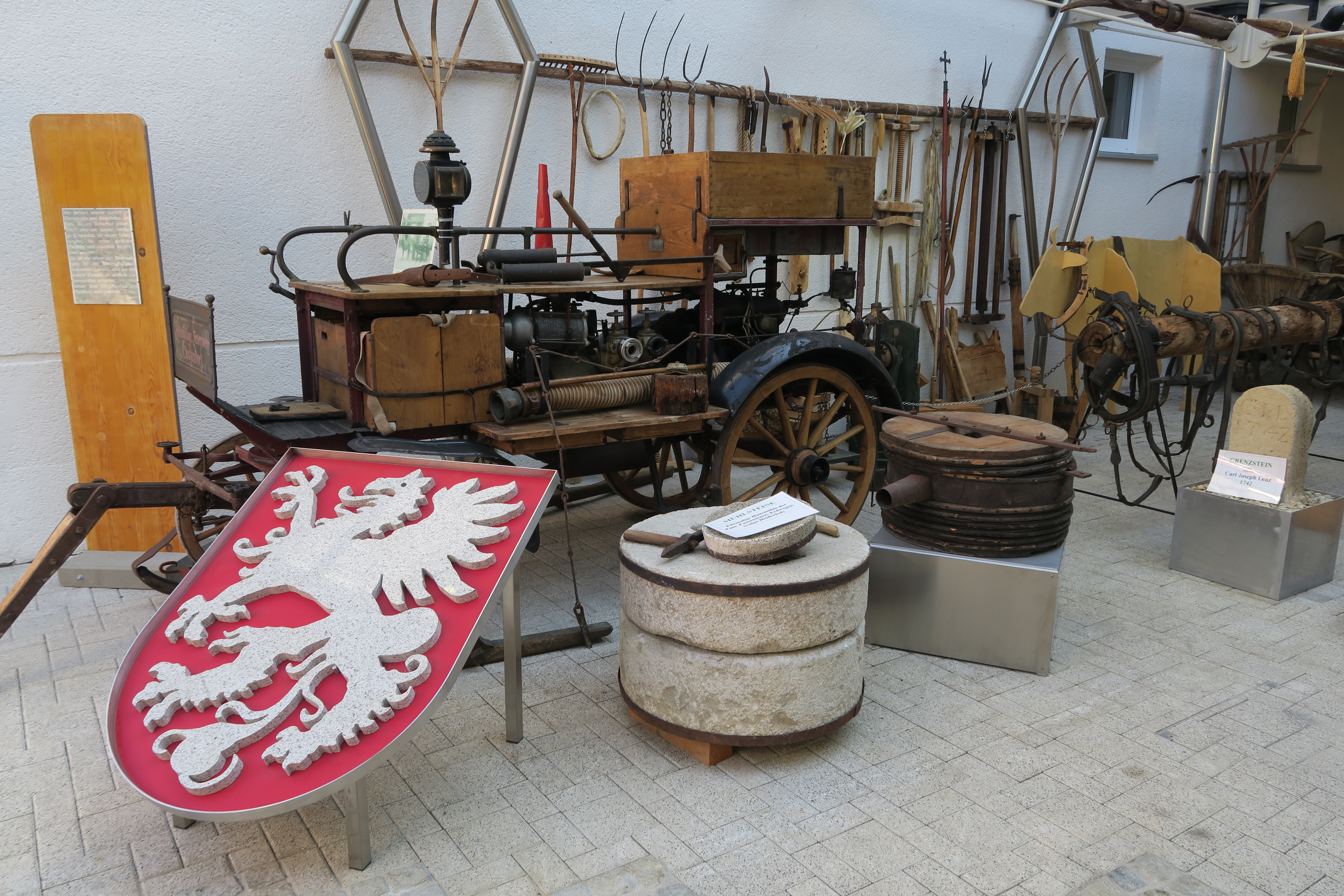 Heimatmuseum Grafendorf